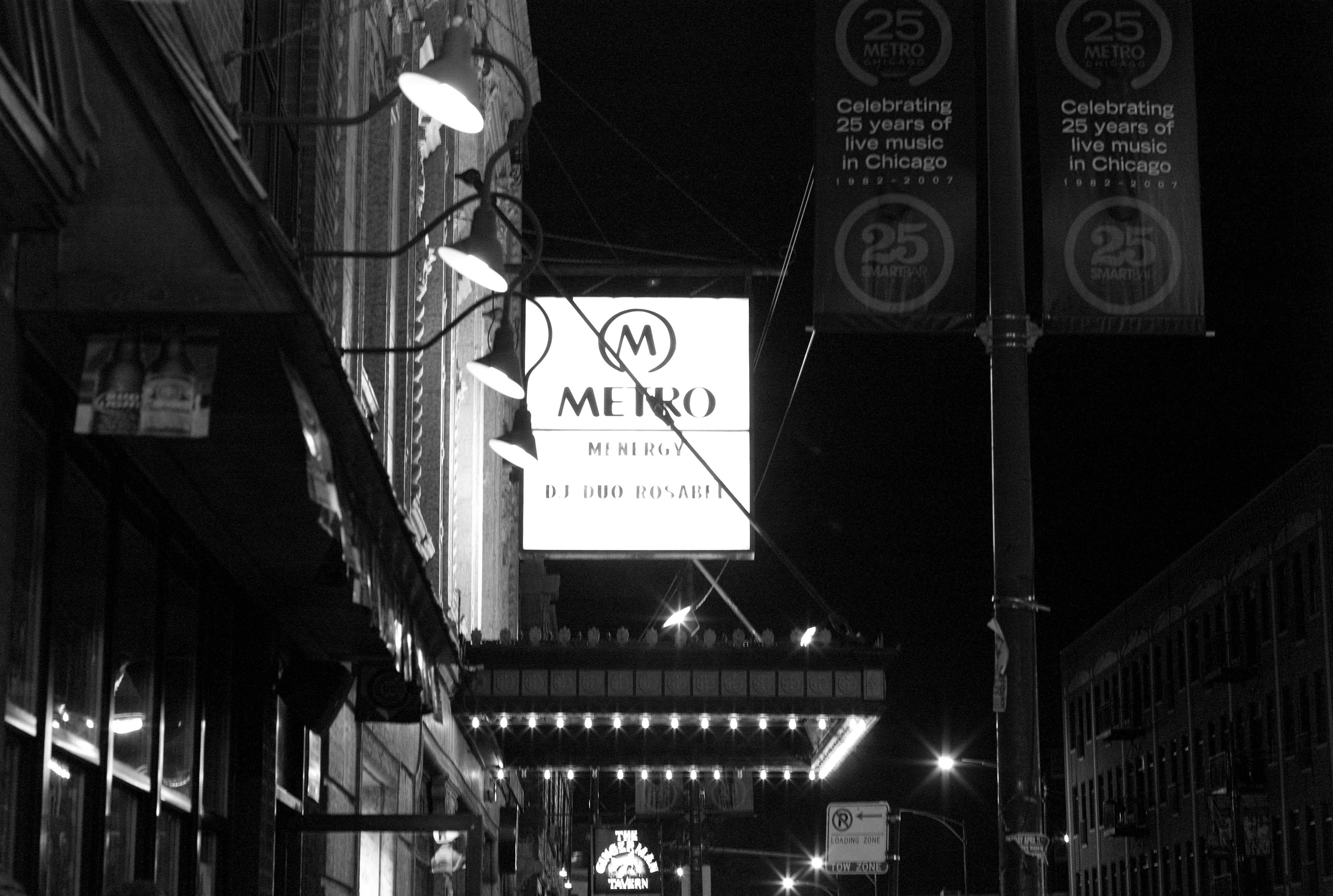 The Metro Chicago sign